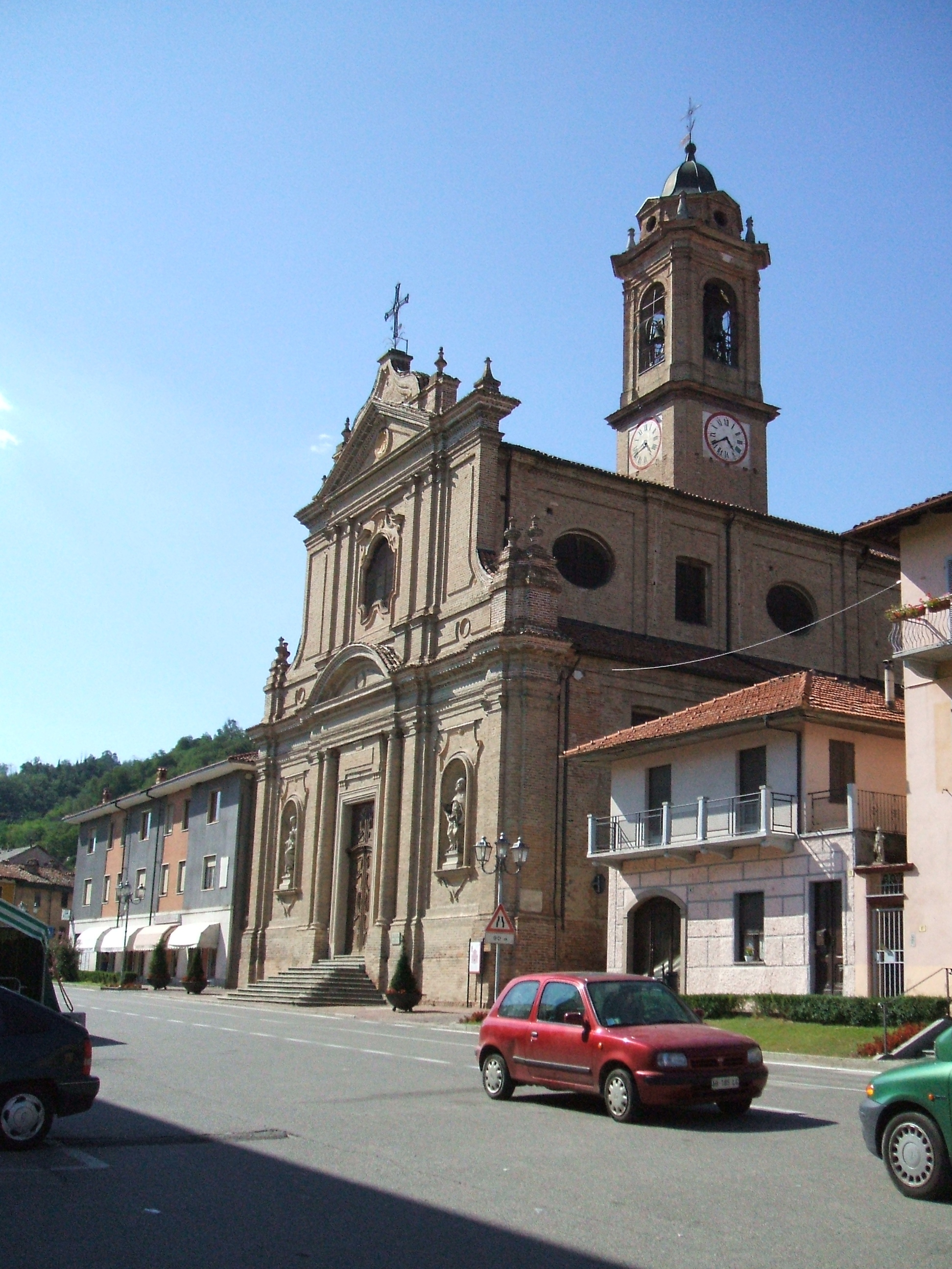 Corneliano d'Alba, Piedmont, Italy - the church